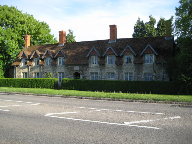 Waddesdon: The Goodwin Almshouses The text on the tablet above the entrance reads: These Almshouses originally built in 1642 by Arthur Goodwin, Esq. of Winchendon were rebuilt in 1893 by Baron Ferdinand Rothschild M.P. and modernised in 1972 with the help of Mrs. James A. de Rothschild These almshouses can also be seen in 1268050.